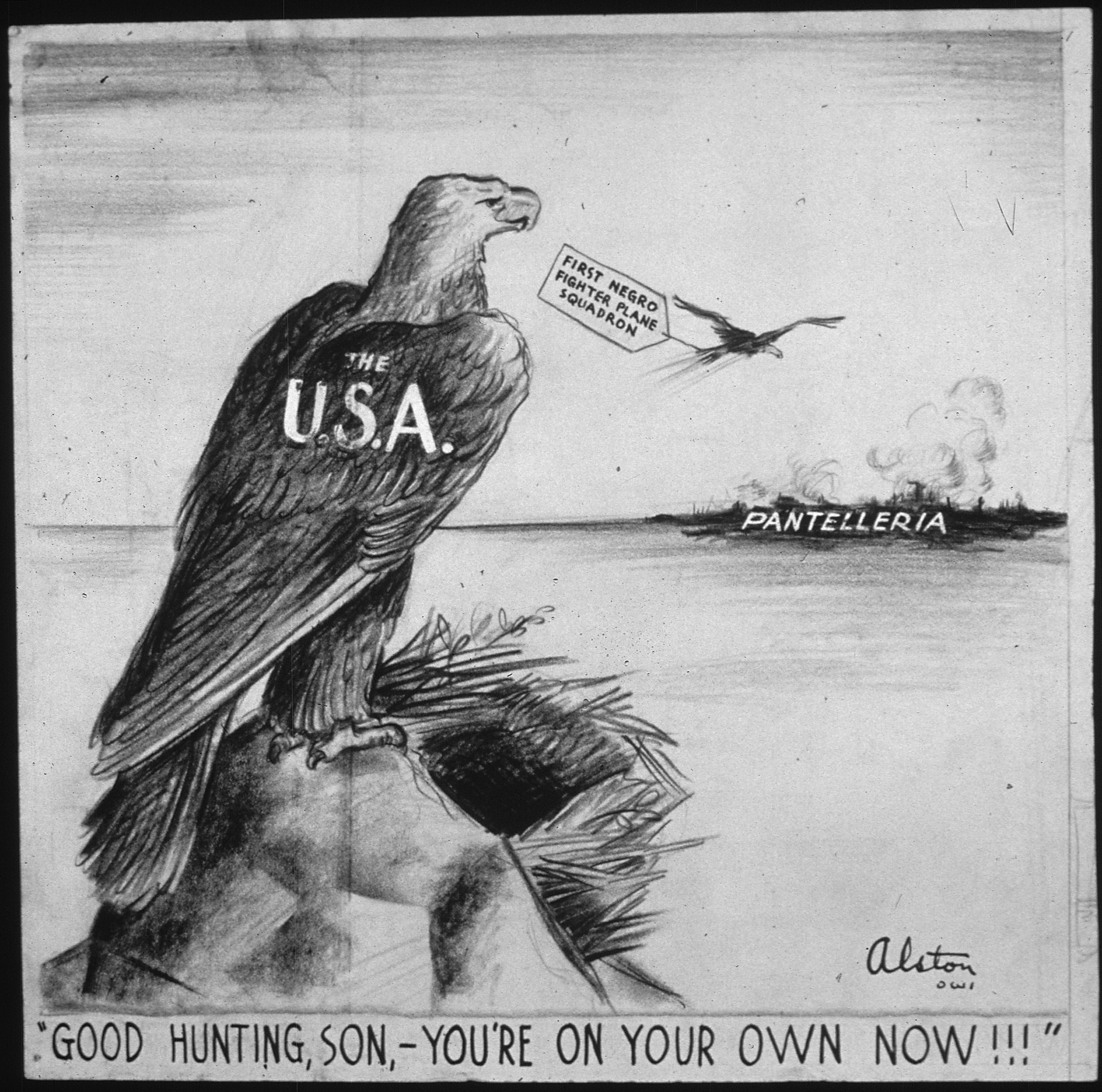 Scope and content: Training blacks in the Air Force.